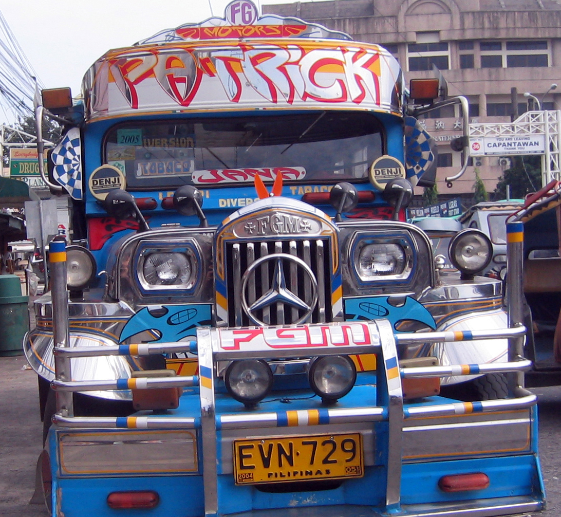 The front of a colourfull jeepney in Naga City (Philippines). This is NOT a Mercedes, despite it´s badge.